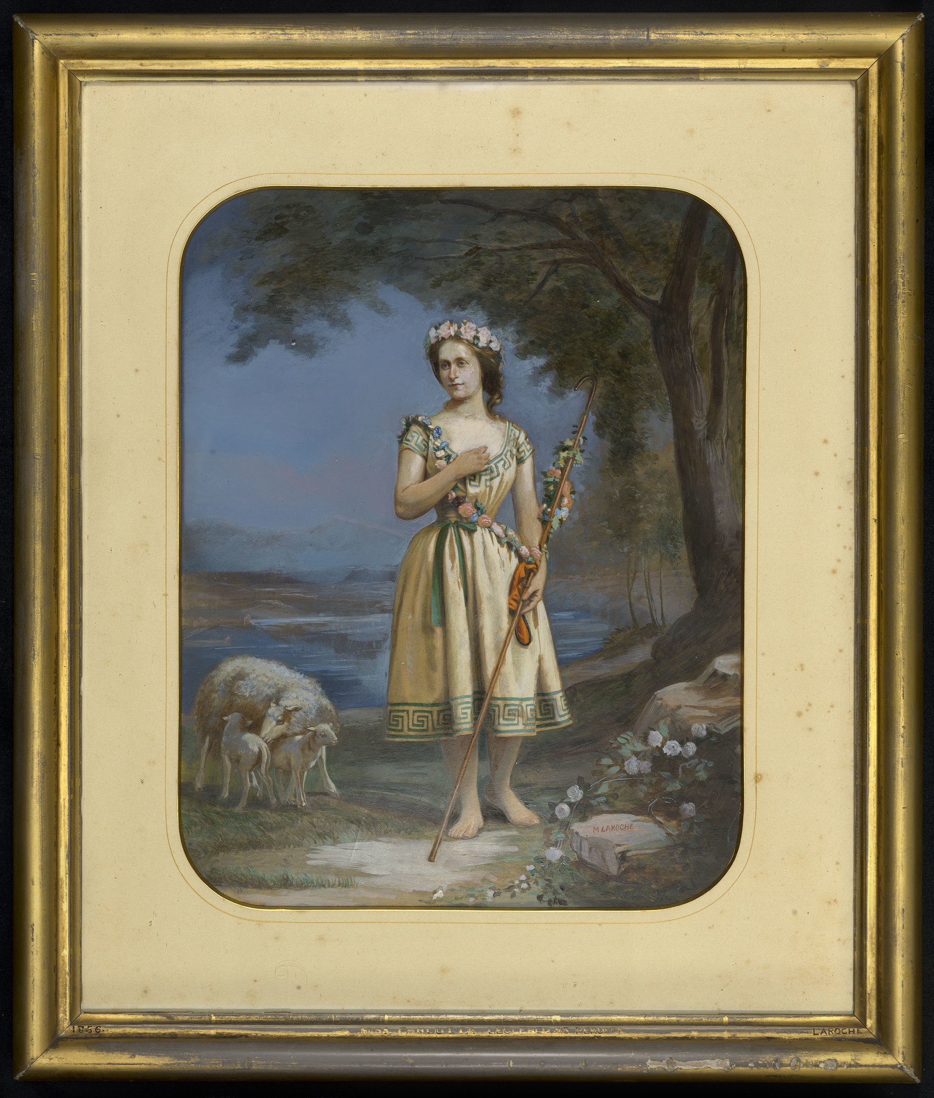 The Royal Collection Martin Laroche Miss Carlotta Leclercq (1838-93) as Perdita 1856 Martin Laroche (1814-86) Miss Carlotta Leclercq (1838-93) as Perdita 1856 Handpainted albumen print | 51.0 x 43.2 cm (Frame) (frame, external) | RCIN 500469 Photograph of the actress Carlotta Leclercq dressed as the character Perdita from William Shakespeare's The Winter's Tale. She is dressed in a Victorian shepherdess costume, standing with sheep under a tree. The background is a painted with a theatrical scene. Provenance Purchased by Queen Victoria, and presented to Prince Albert as a Christmas present in 1856 Medium and techniques Handpainted albumen print albumen print, overpainted Measurements 51.0 x 43.2 cm (Frame) (frame, external) 34.0 x 26.3 cm (sight) Markings No 775 (mark, stamped)